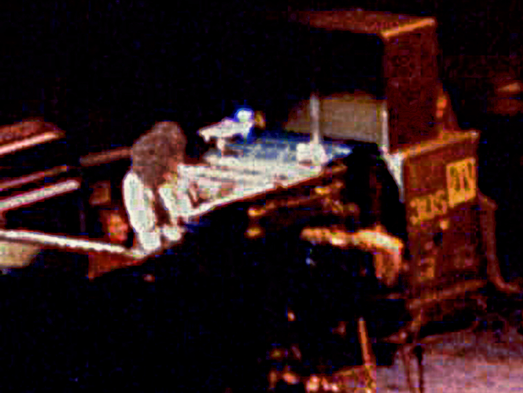 Patrick Moraz with the Moody Blues between 1978-82 Flickr Tags: concert Buffalo